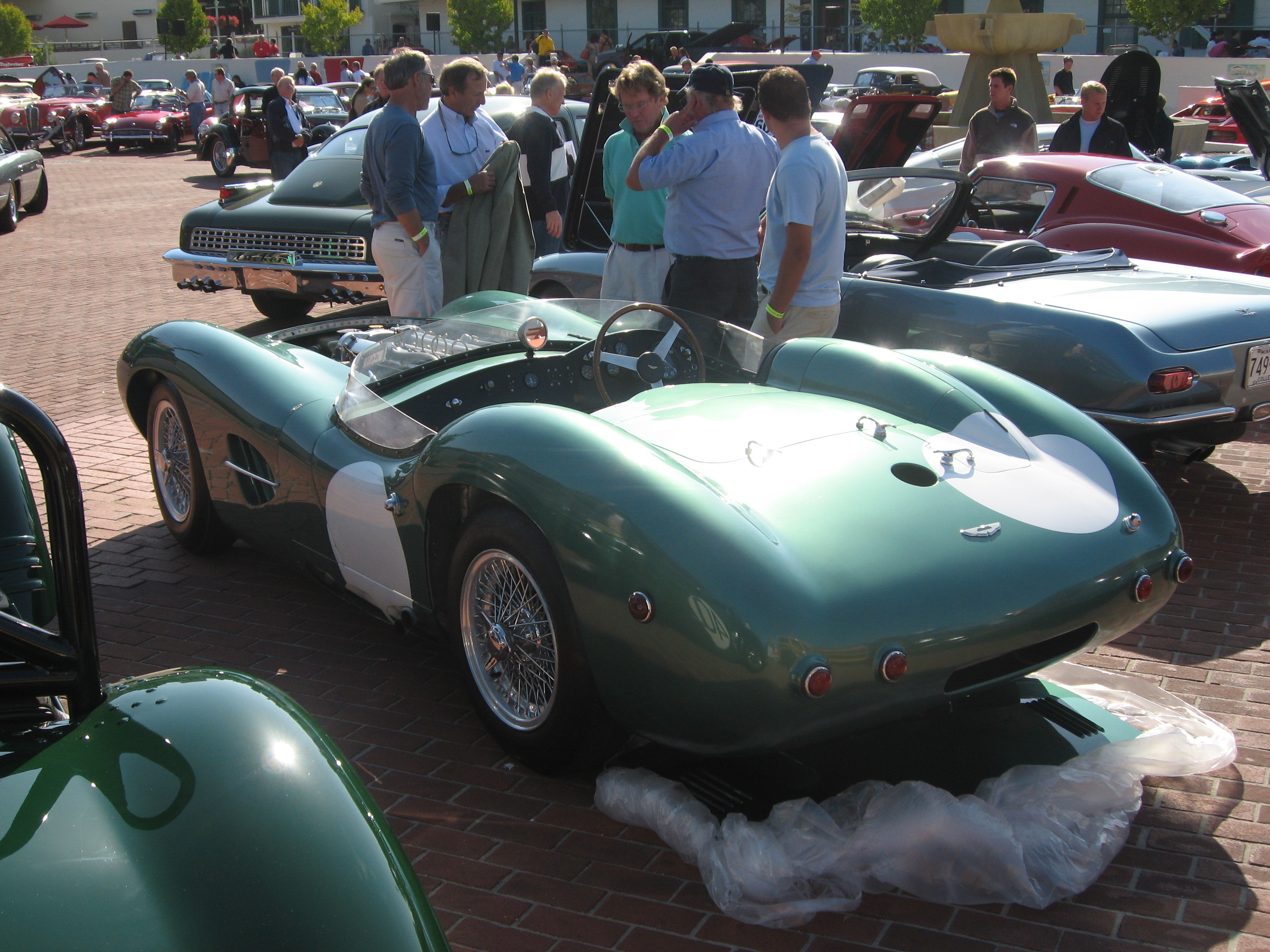 A rear view of an Aston Martin DBR1 replica, sold for USD 275,000 at RM Auctions in Monterey, CA on 18–19 August 2006.[1]